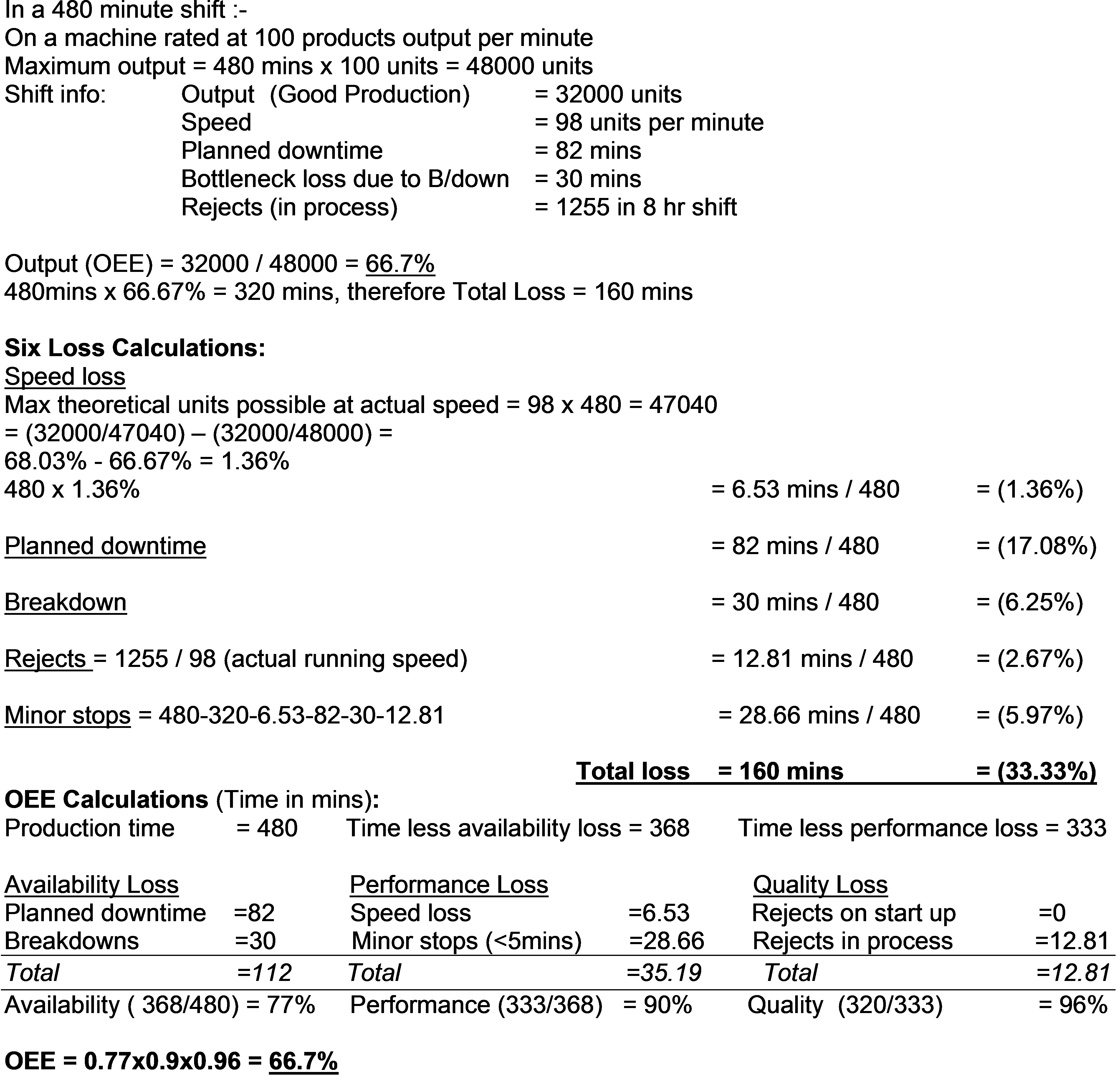 Example of OEE calculation and further break down to Six Loss analysis for allocating of production loss